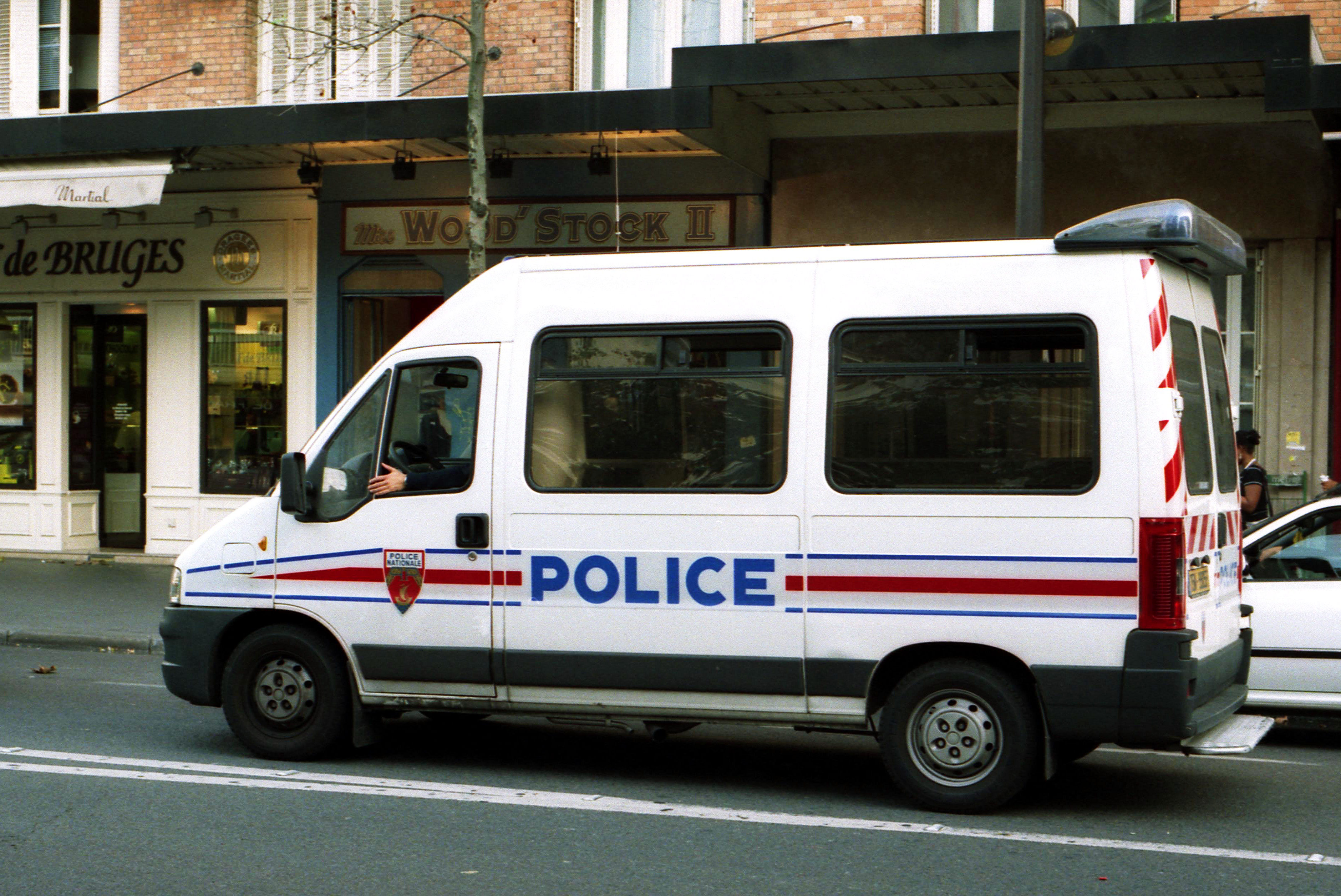 Peugeot Boxer Mk I of the french Police Nationale.